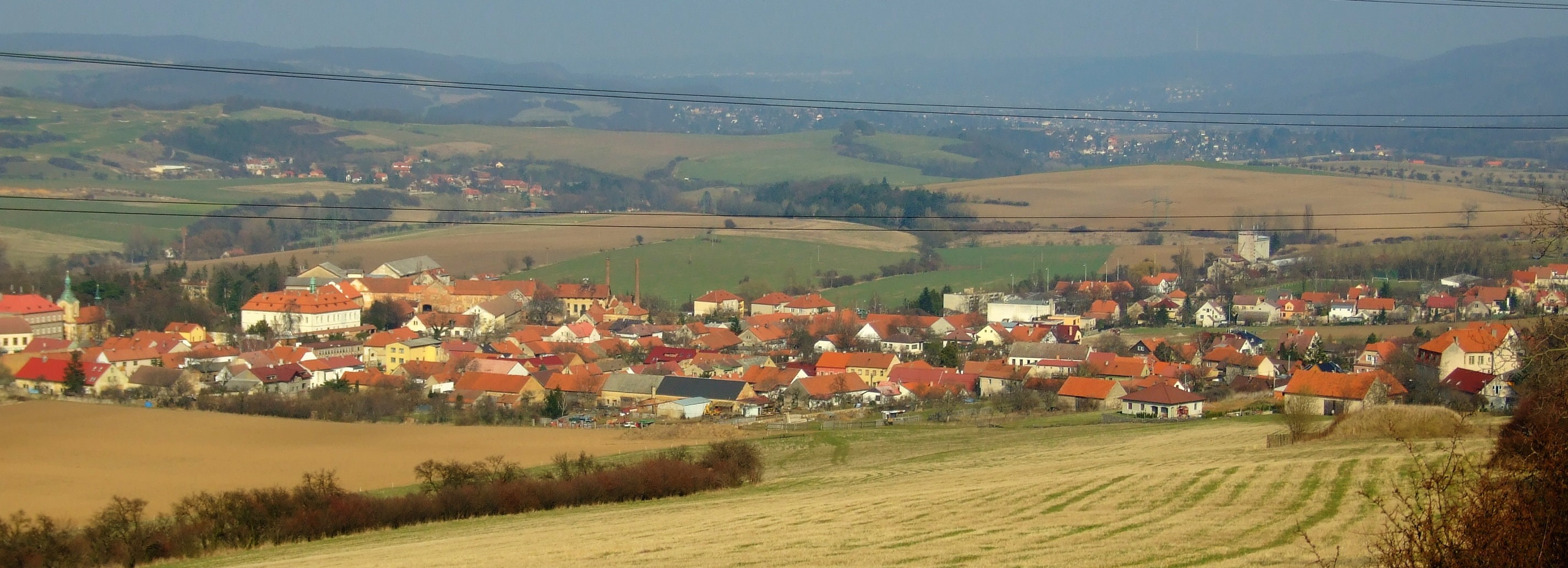 Town of Liteň and its surrounding nature in Central Bohemian region, CZhelp